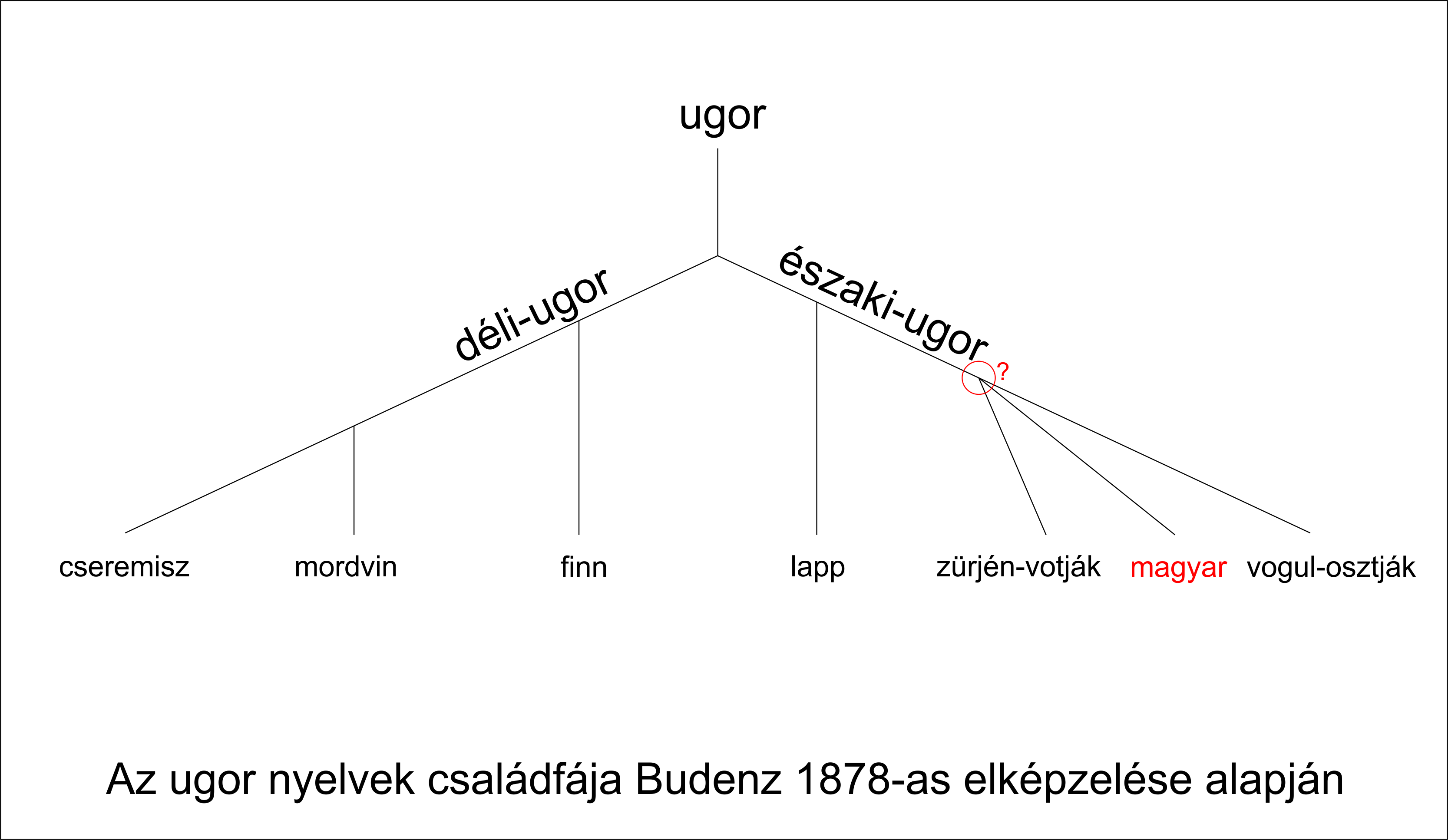 The family tree of Ugric languages according to Budenz.